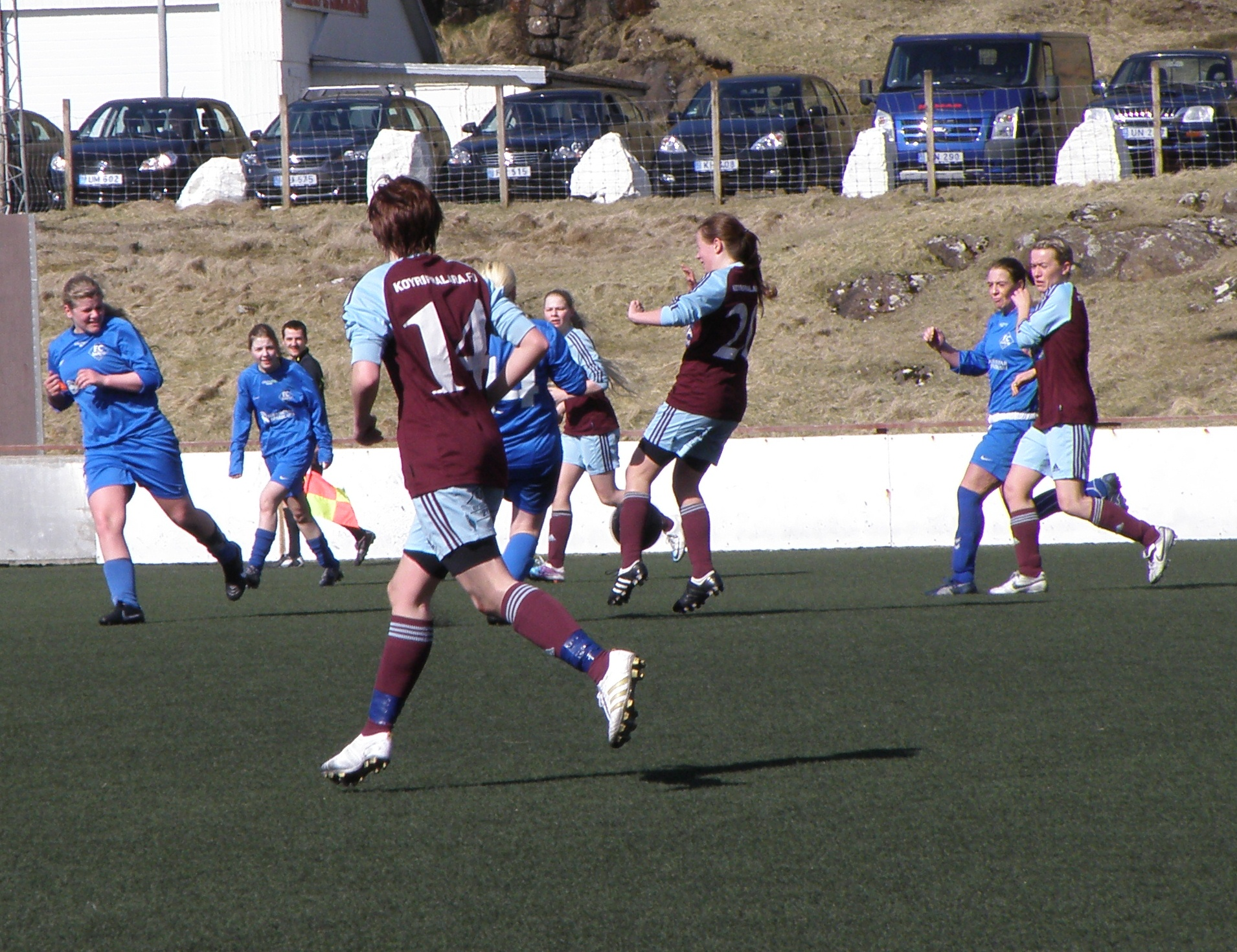 Football (soccer) match in the women's best division in the Faroe Islands between FC Suðuroy and AB Argir. The match was played on 9 April 2012. AB Argir won the match 5-0.